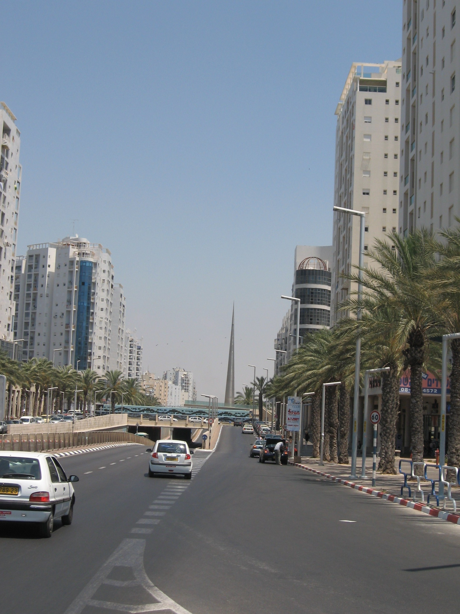 Ashdod.